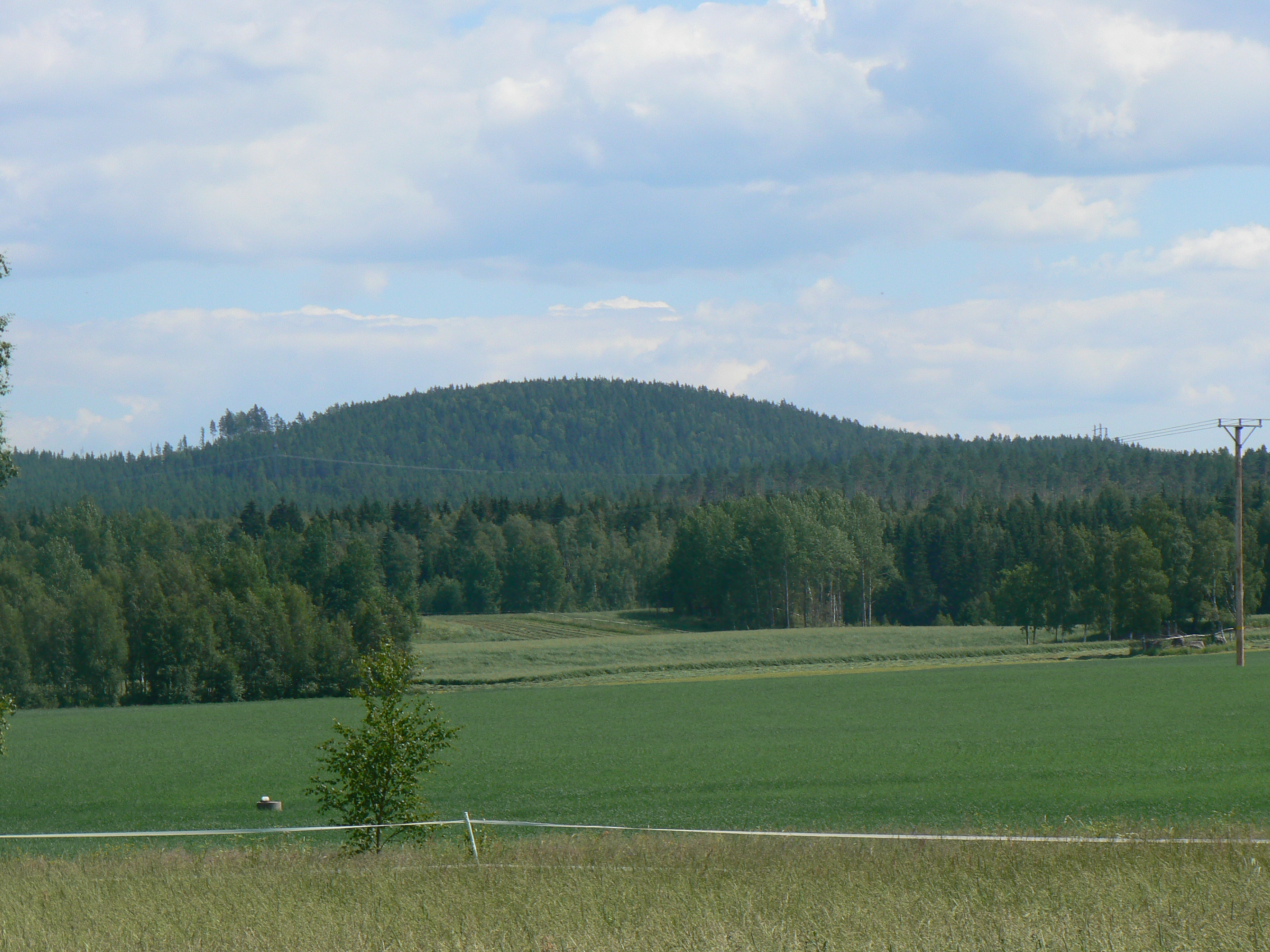 Löpholsberget ("Löphol mountain/hill") near Falun, photo taken from Hälsingborn.